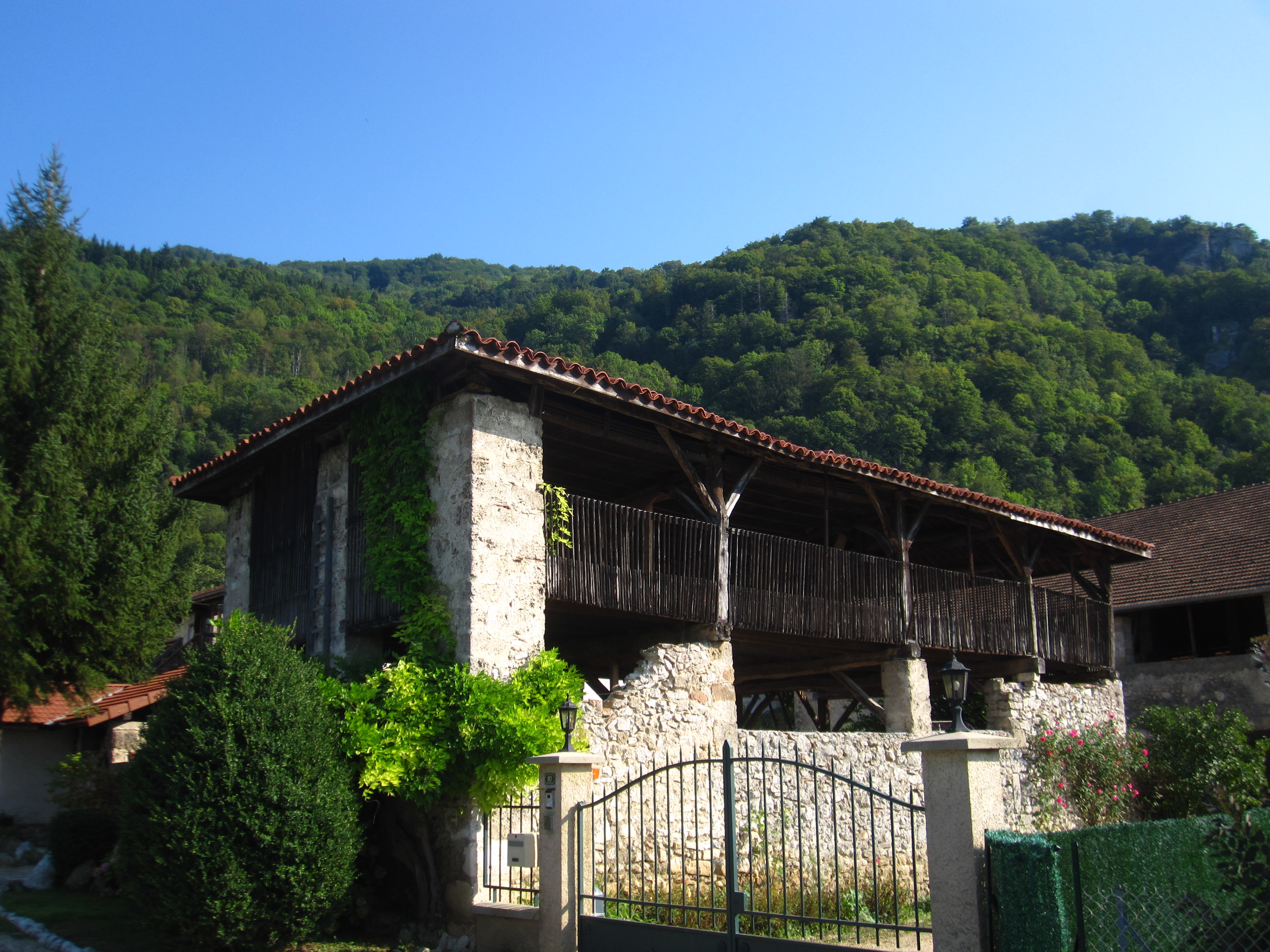 Photograph of the building where walnuts are dried, in Cognin-les-Gorges